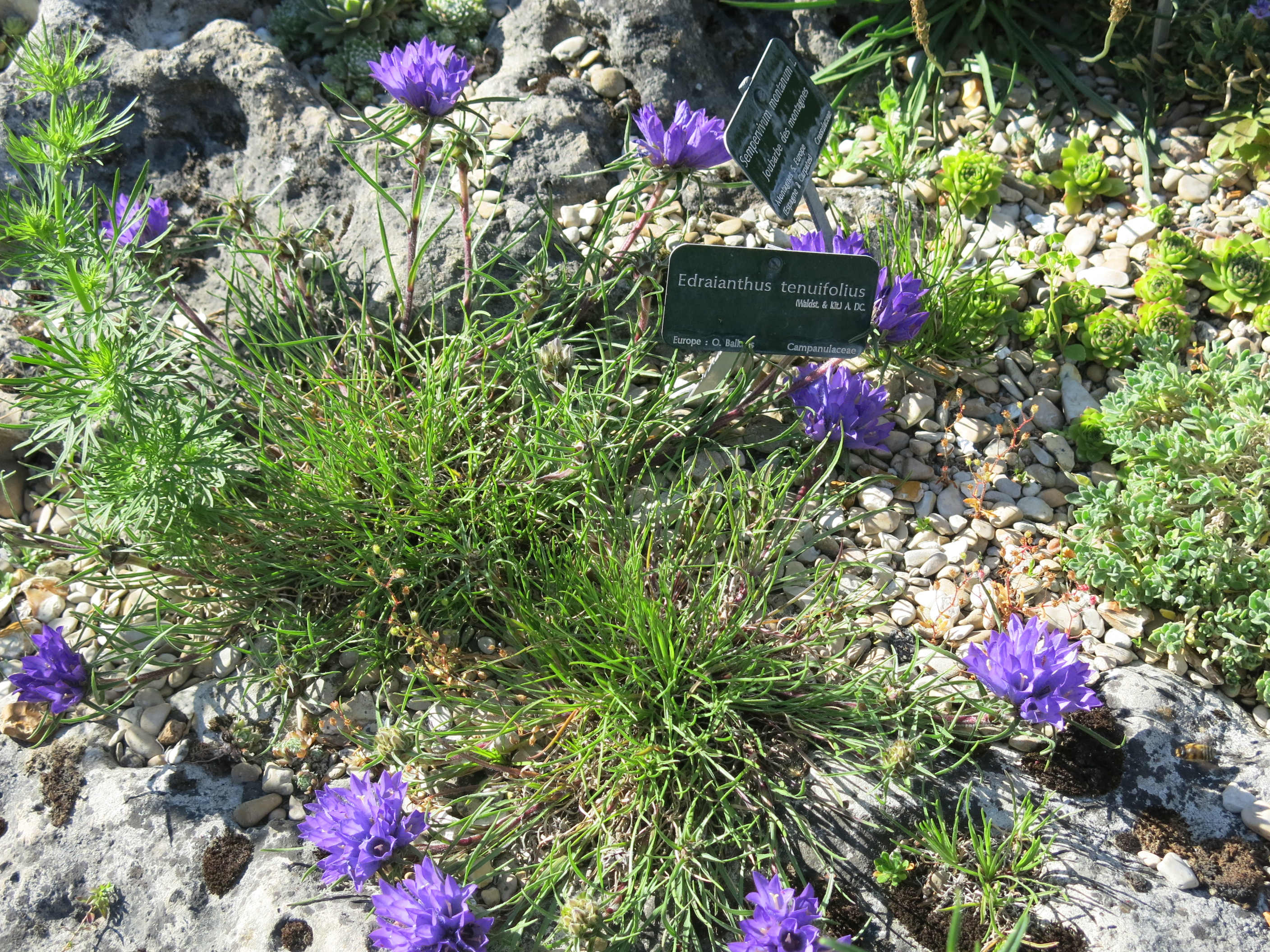 Edraianthus tenuifolius in the Jardin des Plantes de Paris. Plant identified by its botanic label.